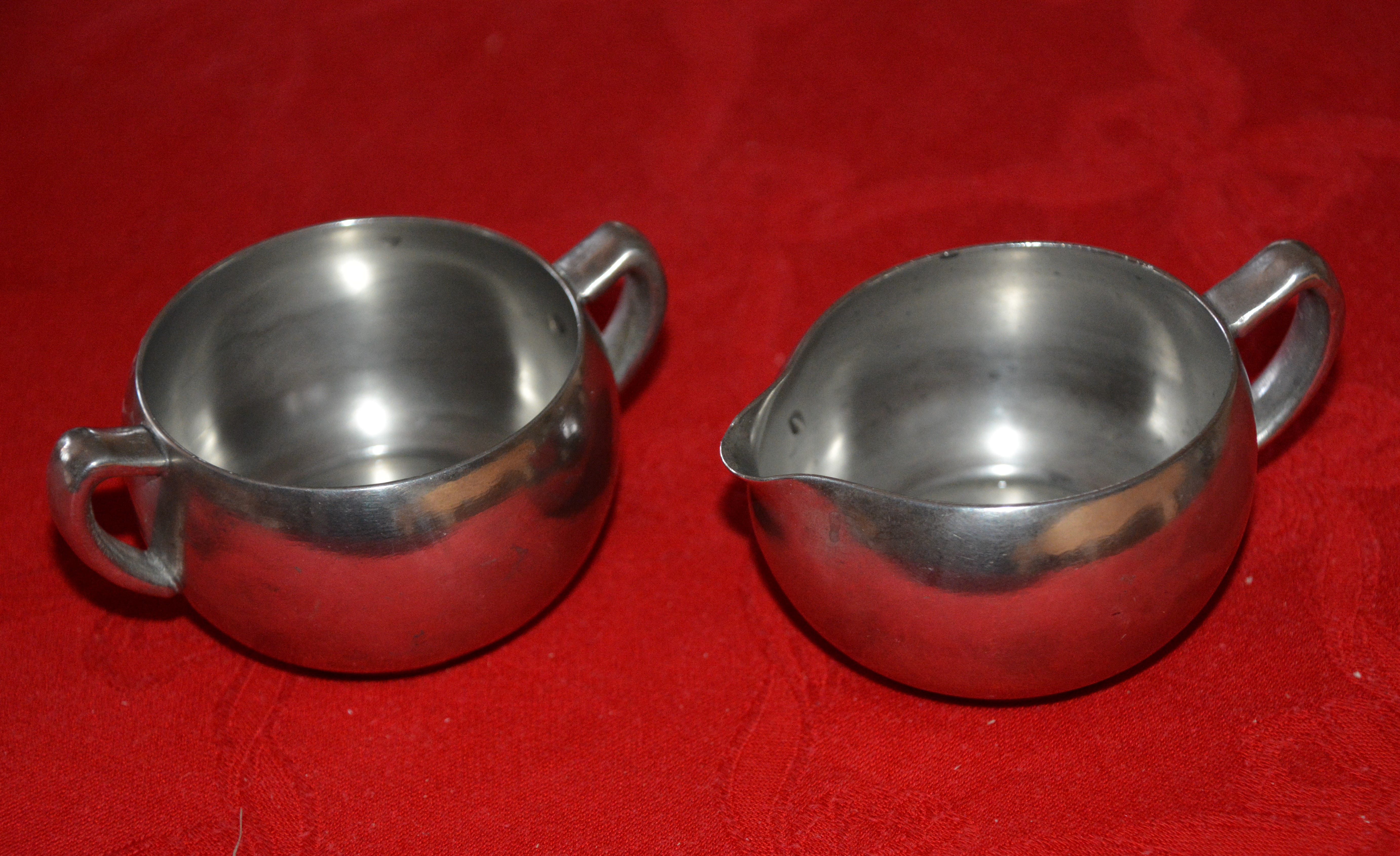 Cream and sugar jugs, artist Thorhild Knutson